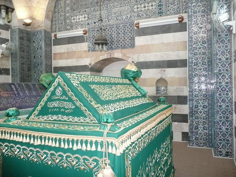 Mausoleum of Saladin near the Umayyad Mosque